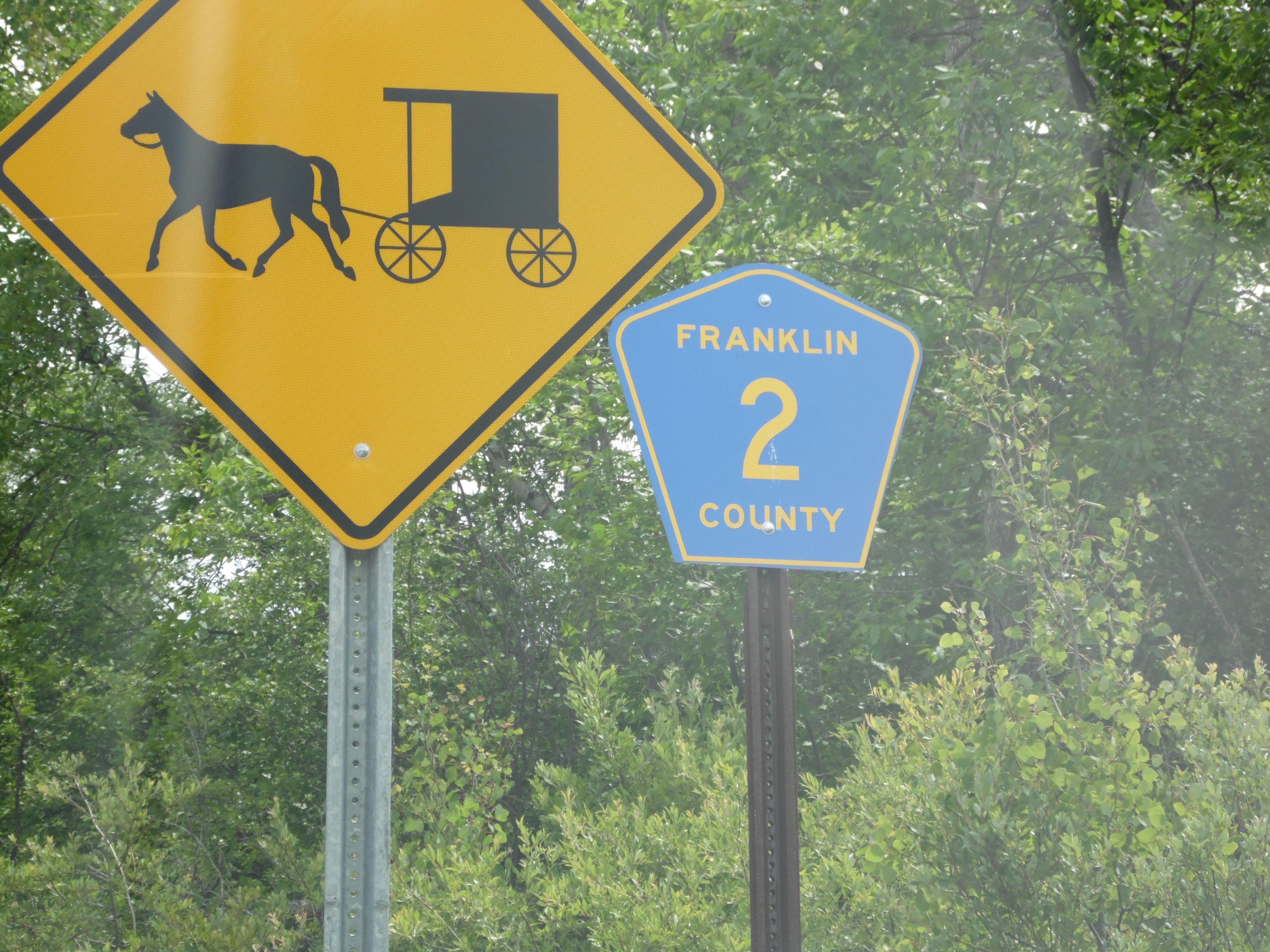 Blue pentagon shield for Franklin County Route 2